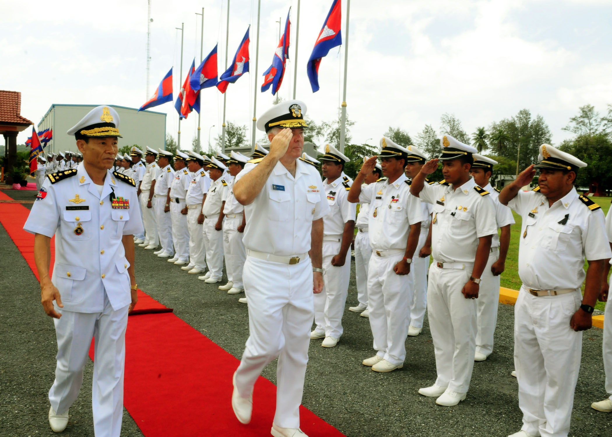 REAM, Cambodia (Oct. 22, 2012) Rear Adm. Tom Carney, commander of Task Force 73, salutes Royal Cambodian naval officers at the Ream Navy Base during Cooperation Afloat Readiness and Training (CARAT) Cambodia 2012. CARAT is a series of bilateral military exercises between the U.S. Navy and the armed forces of Bangladesh, Brunei, Cambodia, Indonesia, Malaysia, the Philippines, Singapore, Thailand and Timor Leste. The U.S. Navy has a 237-year heritage of defending freedom and projecting and protecting U.S. interests around the globe. Join the conversation on social media using #warfighting. (U.S. Navy photo by Mass Communications Specialist 1st Class Robert Clowney/Released) 121022-N-NJ145-091 Join the conversation navylive.dodlive.mil